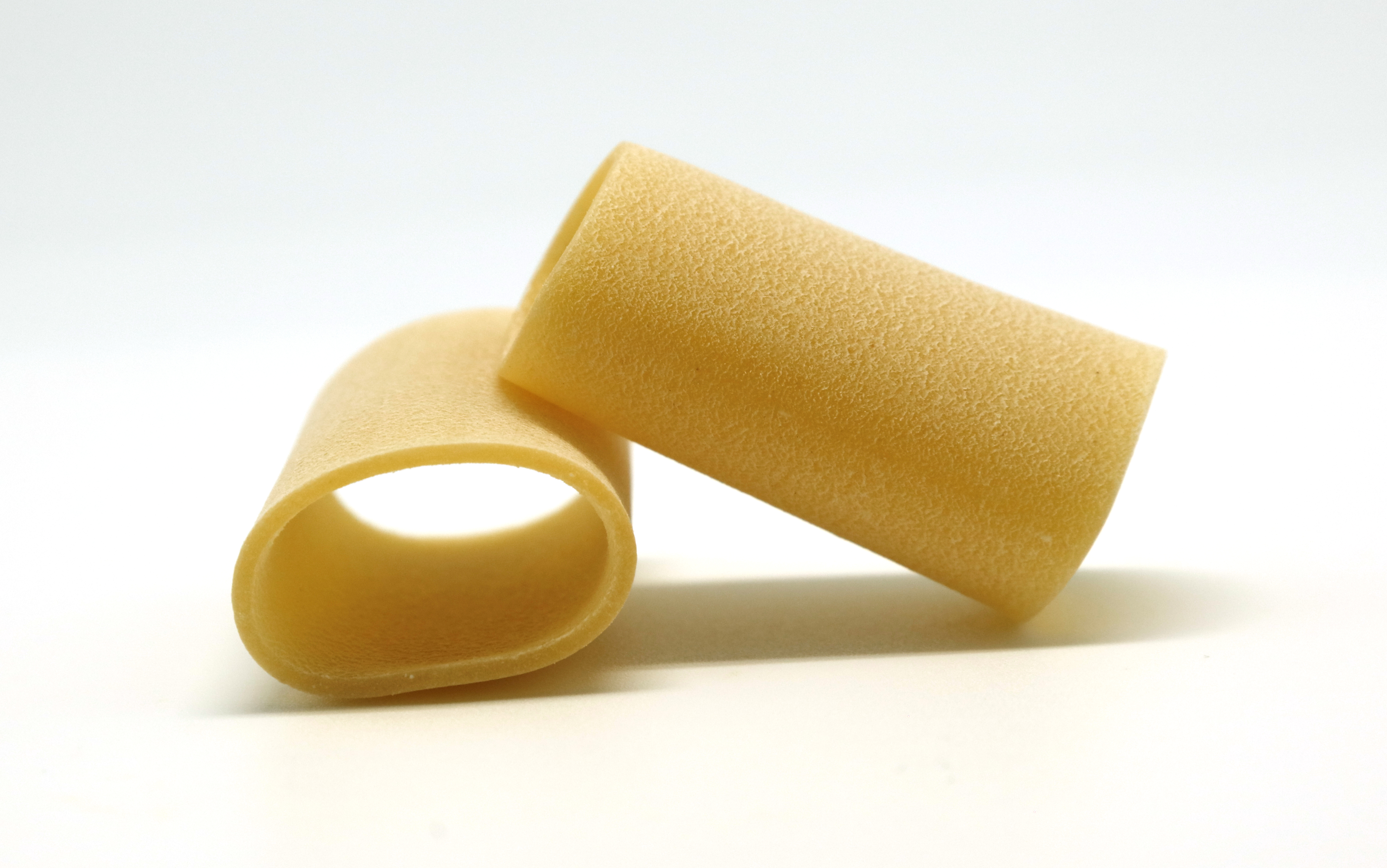 Paccheri, a type of italian pasta (type 111, brand Rummo, Italy)